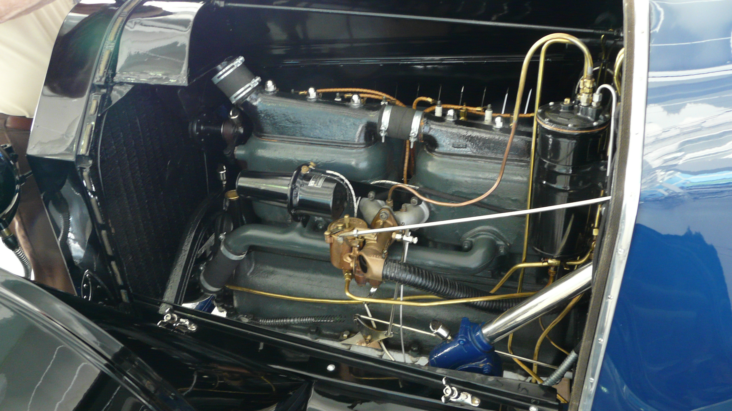 View of Light Six Engine